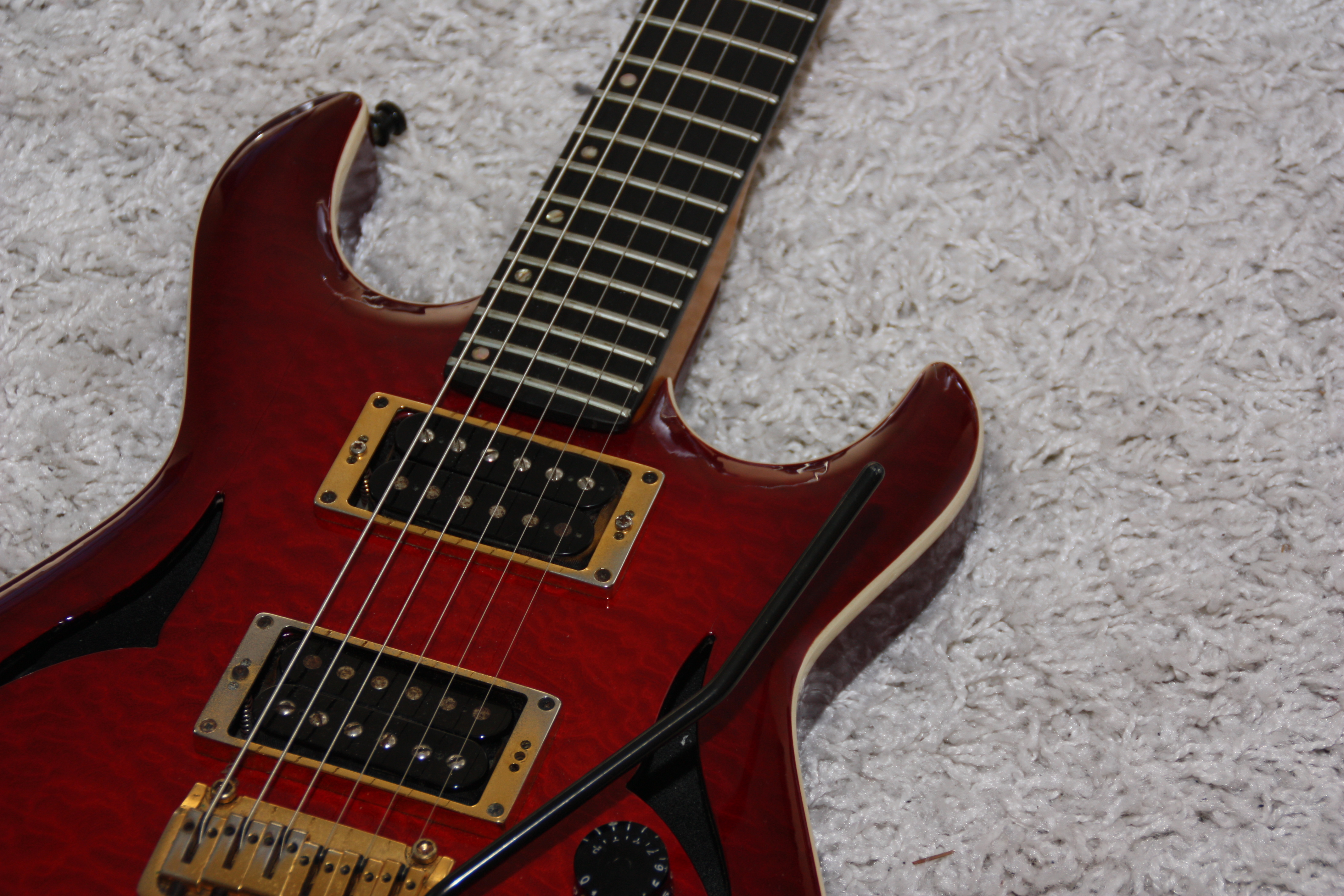 Lag Thinline with DiMarzio Humbucker